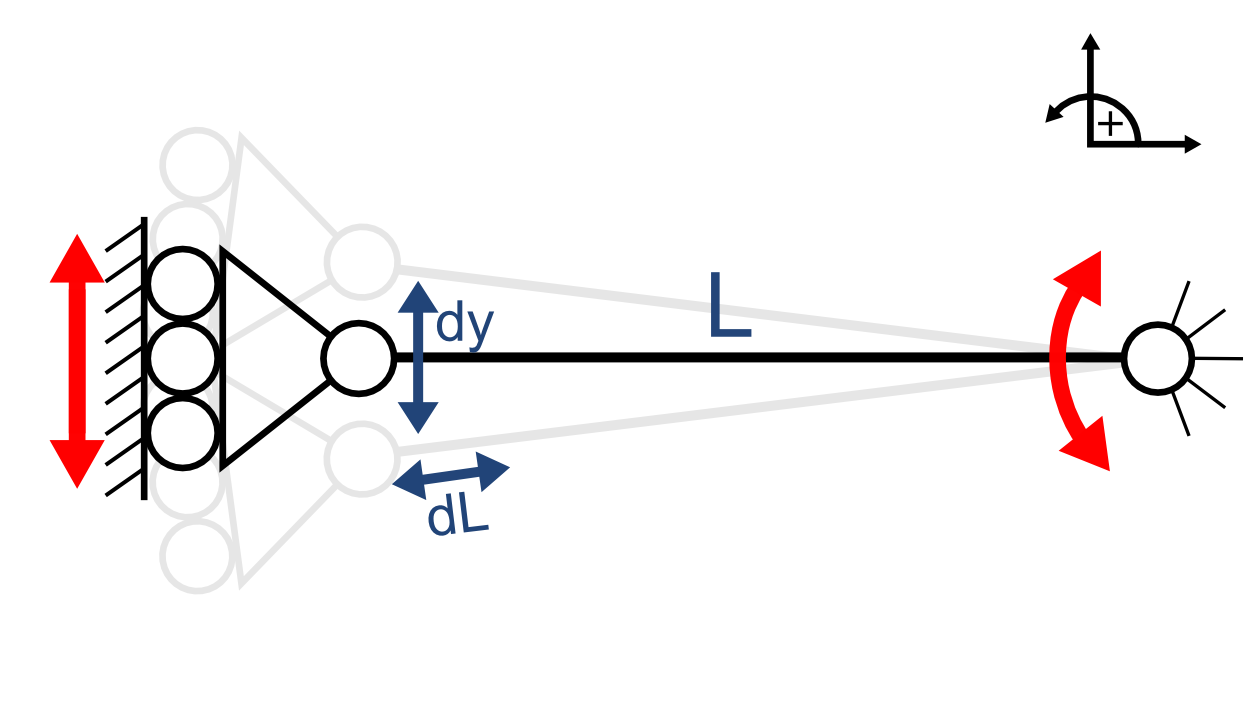 Diagram of a hinge-cart mechanical system, not statically determinate.